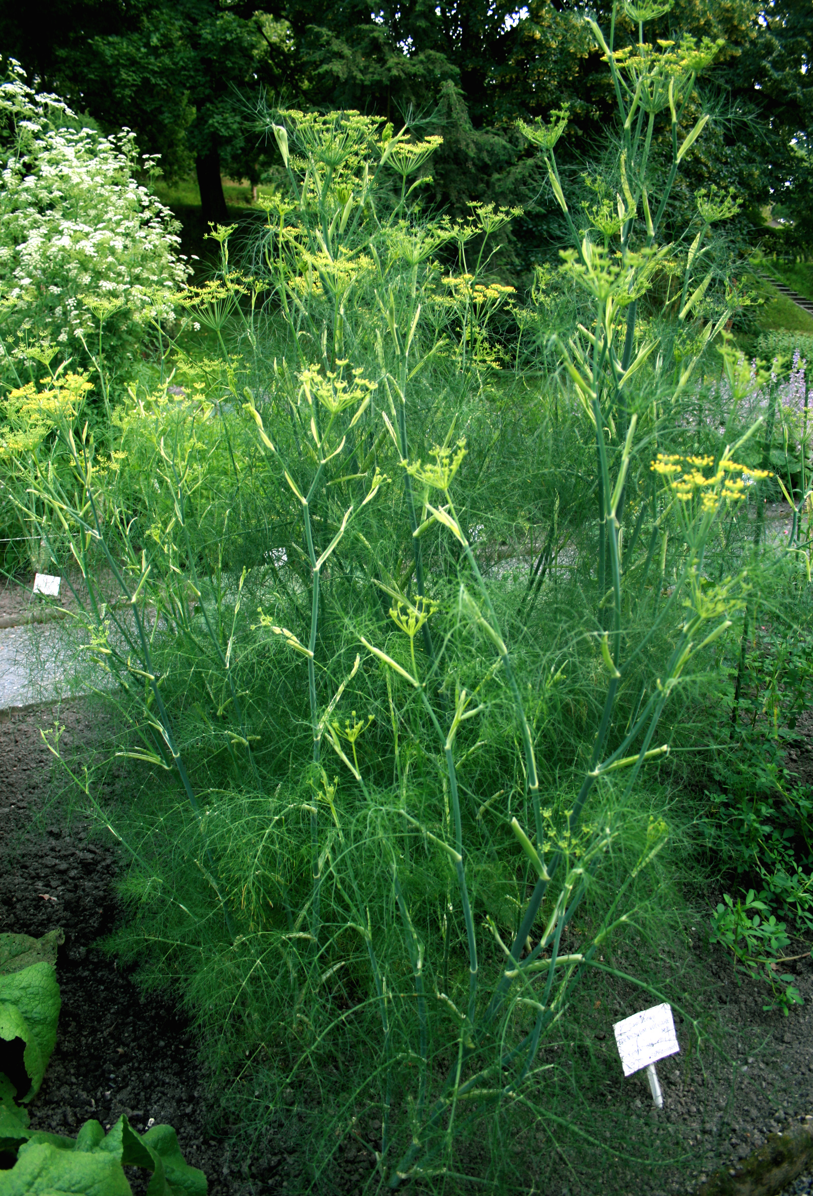 Fennel, Foeniculum vulgare from Botanical Garden of Charles University in Prague, Czech Republic